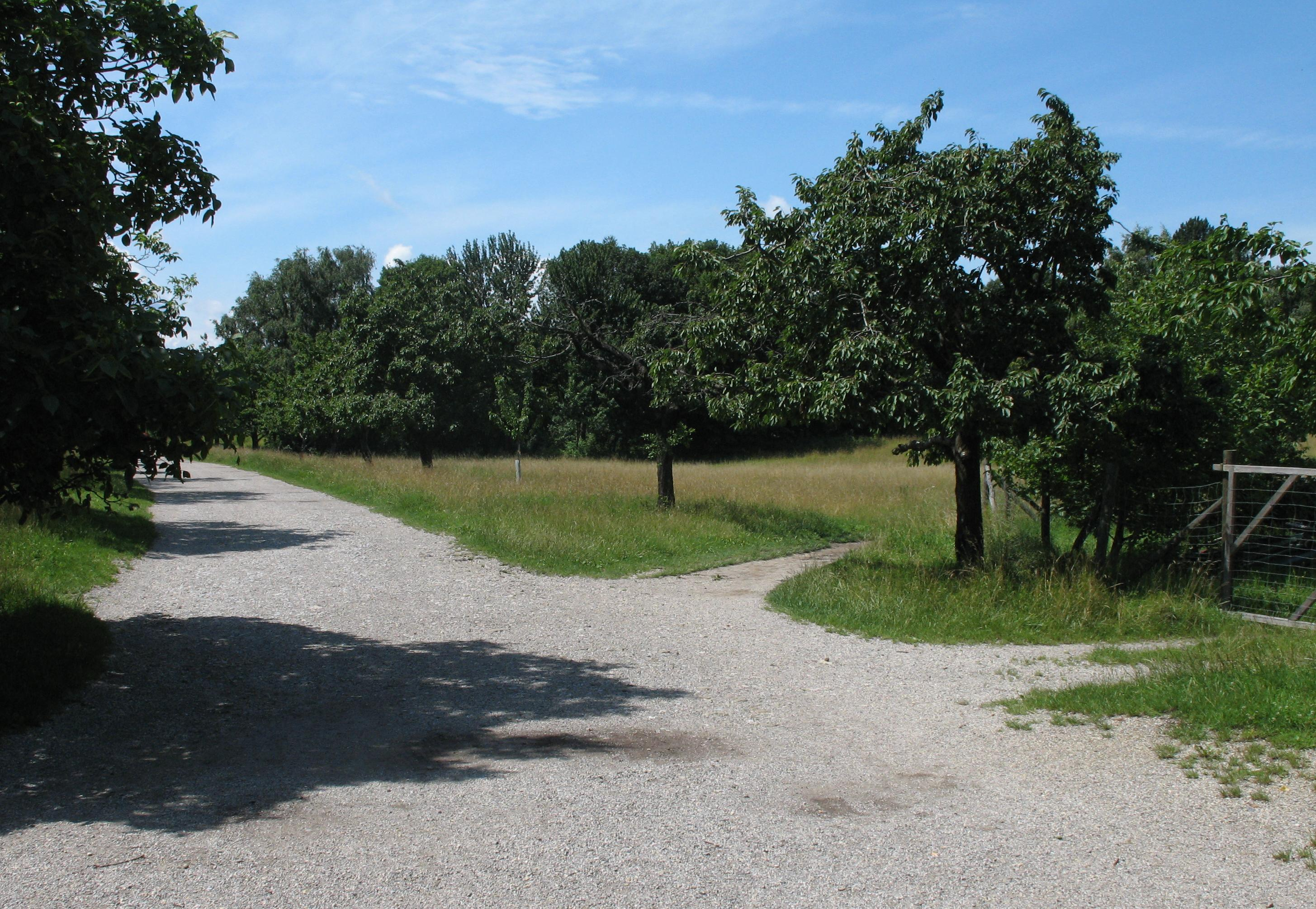 „Steinhofgründe“ in Vienna, Austria